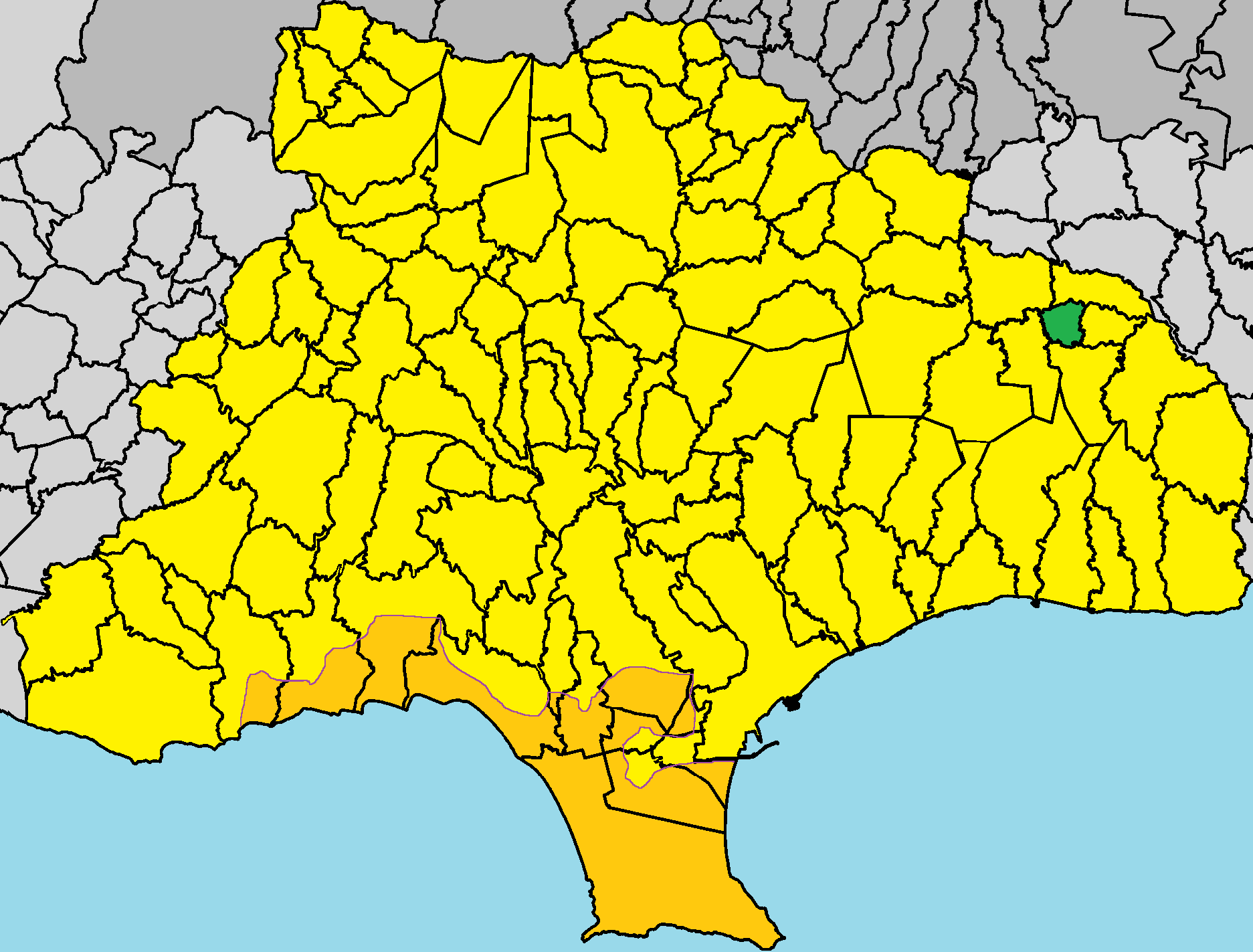 Klonari in Limassol District.